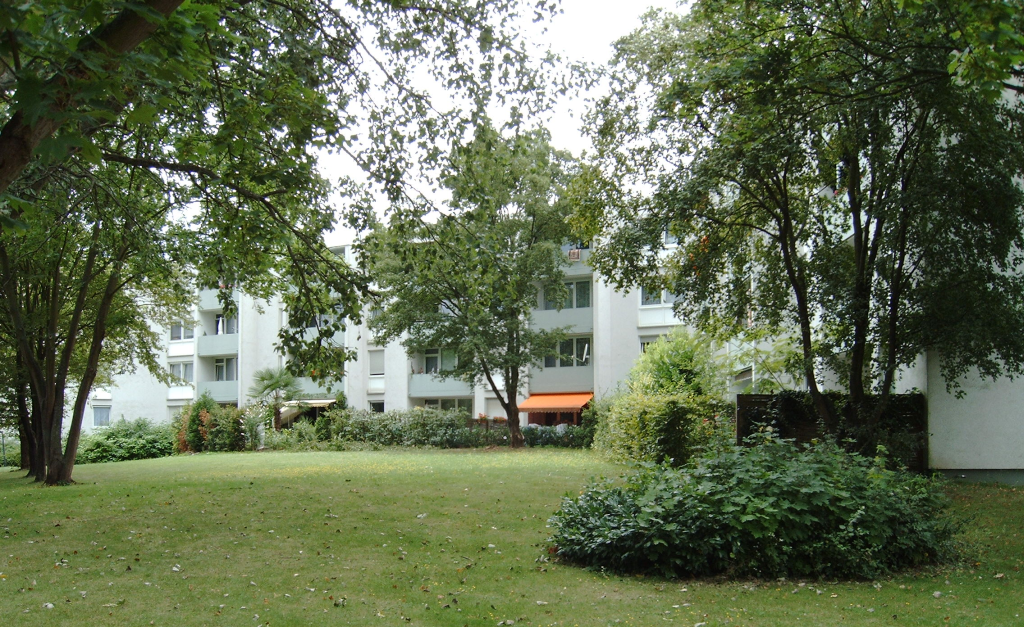 Houses in Mannheim-Vogelstang